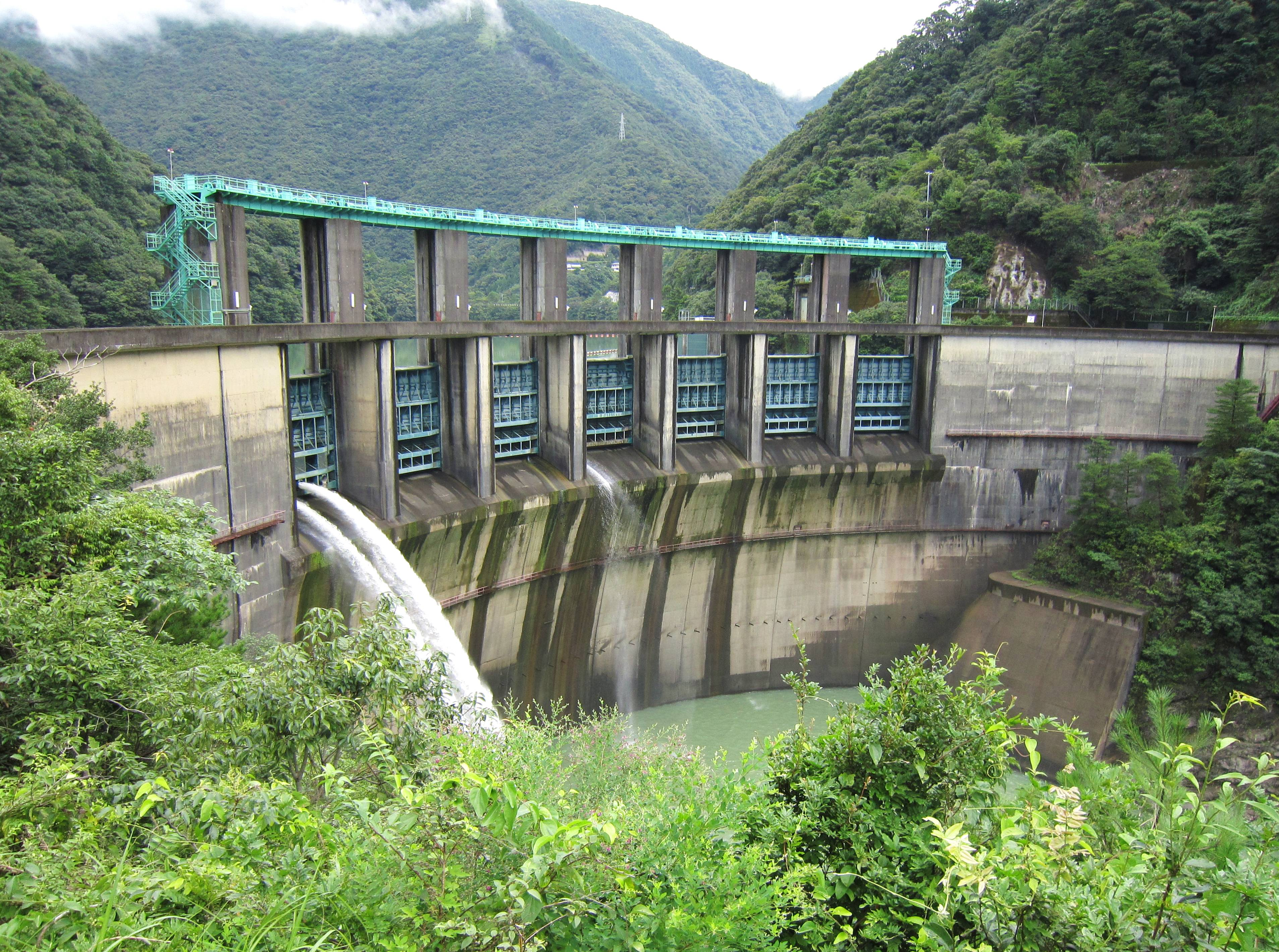 Futatsuno Dam.